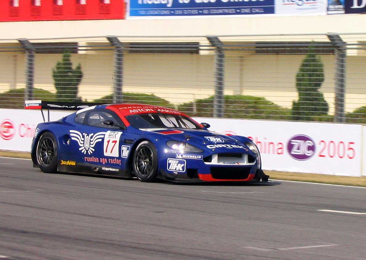 Russian Age Racing's Aston Martin DBR9 during practice at Zhuhai International Circuit